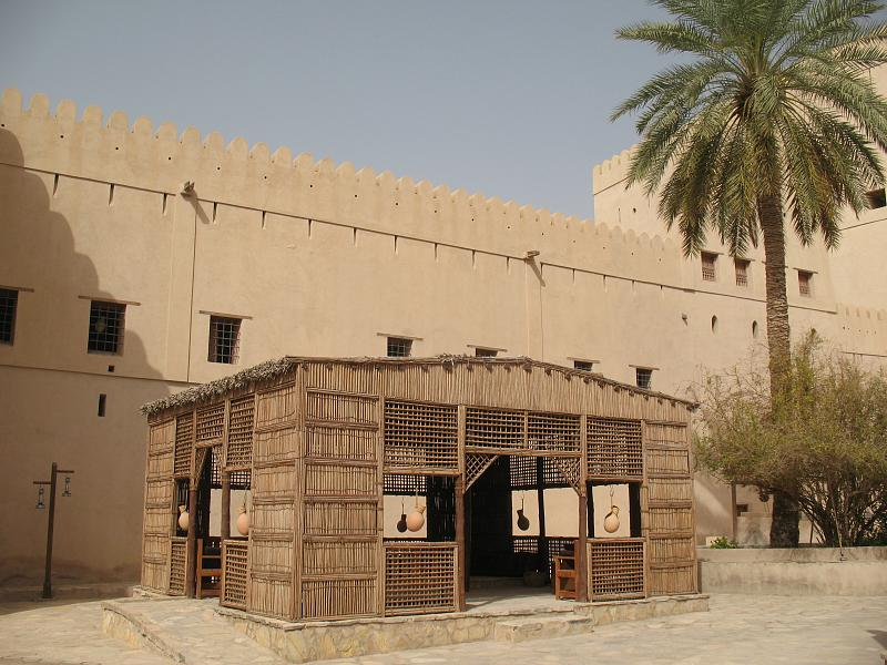 Coffeeshop (arish house) in Nizwa (Oman)